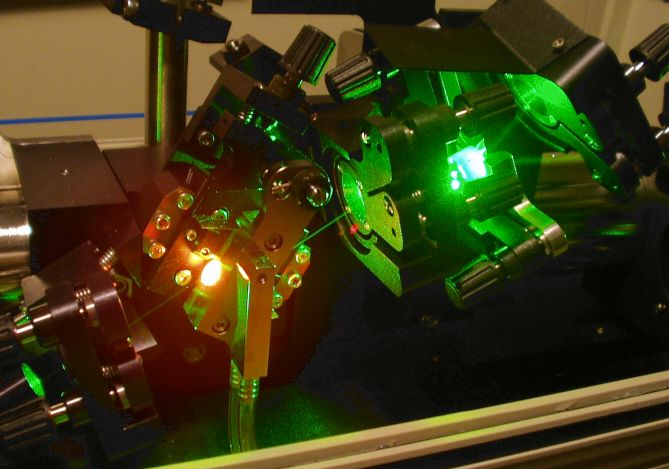 Part of a Ti-sapphire laser; the bright red light on the left is the Ti:sapphire crystal; the bright green light is scattered pump light from a mirror. The 800 nm laser light is invisible since it is in the infrared. This laser is a Spectra Physics Tsunami oscillator, pumped by a Millennia at 532 nm. The image was taken at Lund University (Sweden), October 2004. Author: Hankwang